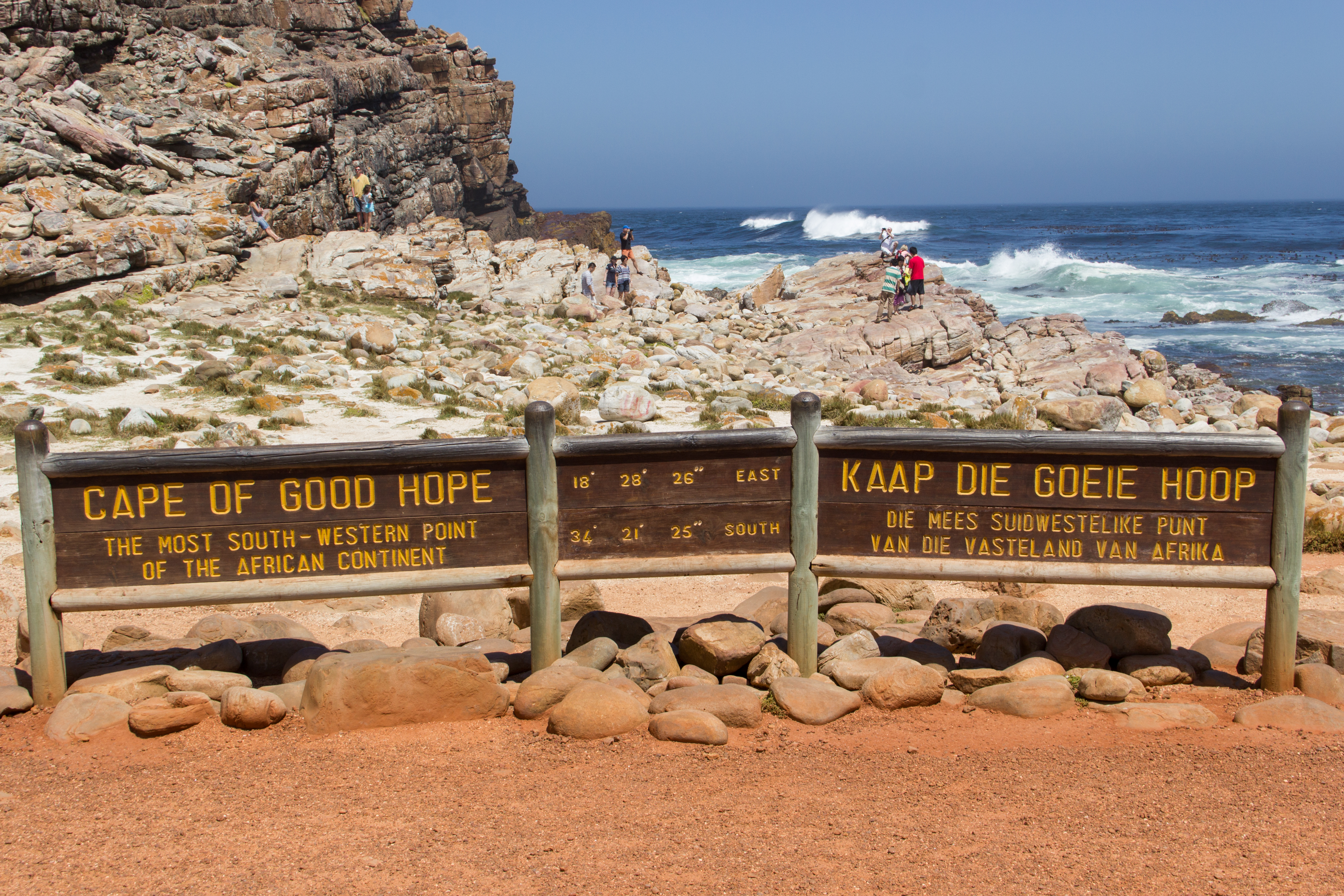 Sign at the Cape of Good Hope, December 2013